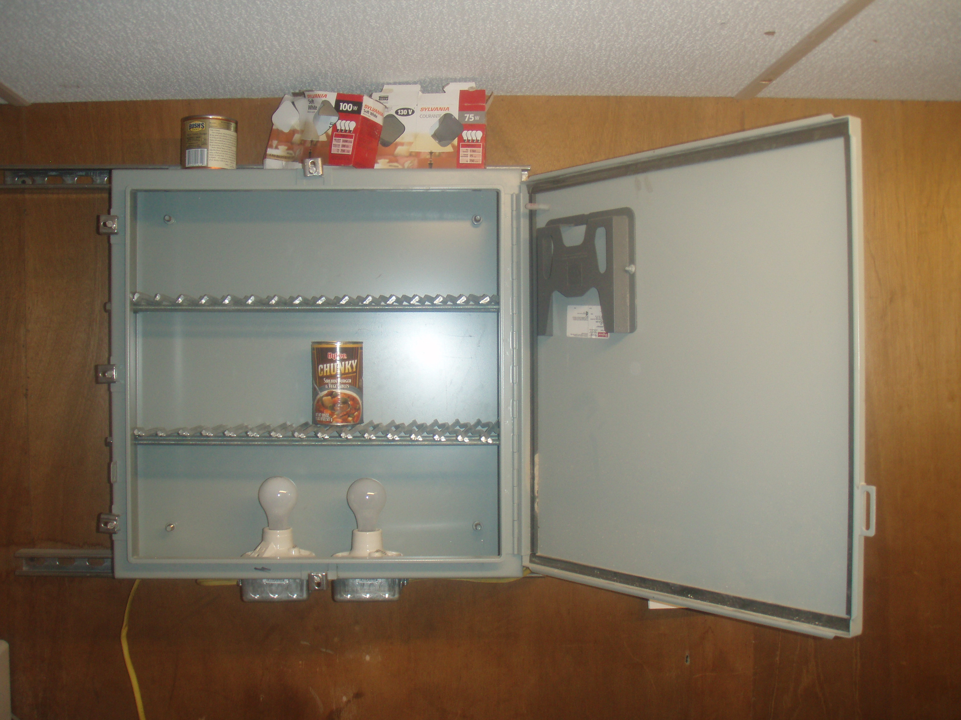 Picture taken by myself, "LP-mn", and I place it in the public domain. It's a Hot Box that way made from scrap parts and mounted in a job trailer.